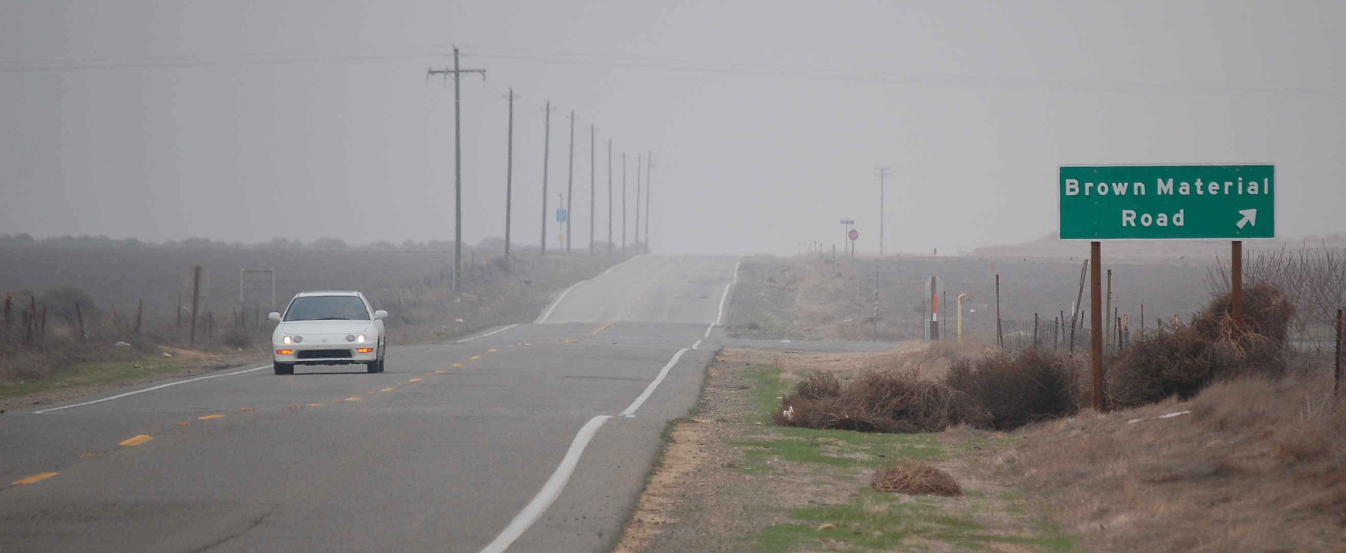 State Route 33 at Brown Material Road on a foggy day. Photo taken at about 5.7 miles south of Blackwells Corner on SR33. This location is in Kern County, California.